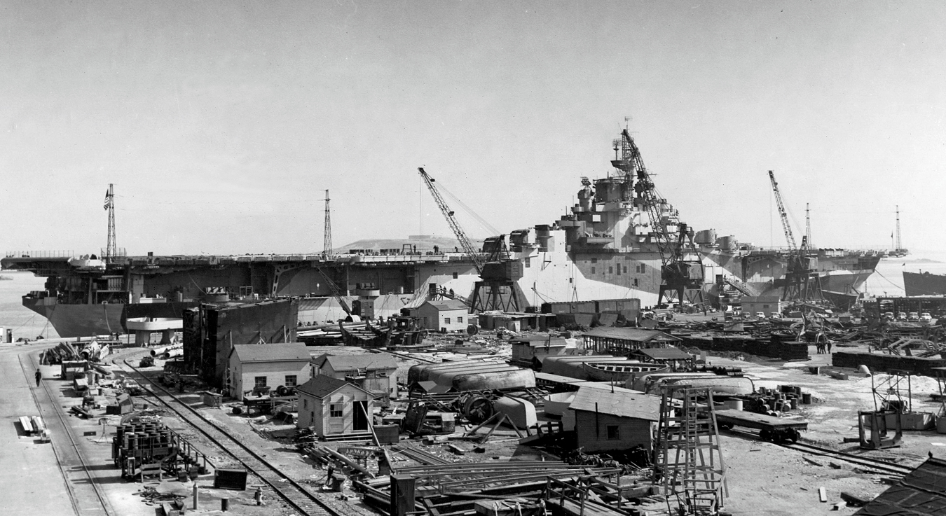 The U.S. Navy aircraft carrier USS Wasp (CV-18) at the Boston Navy Yard on 14 March 1944. Wasp is painted in Measure 33, Design 10A camouflage.